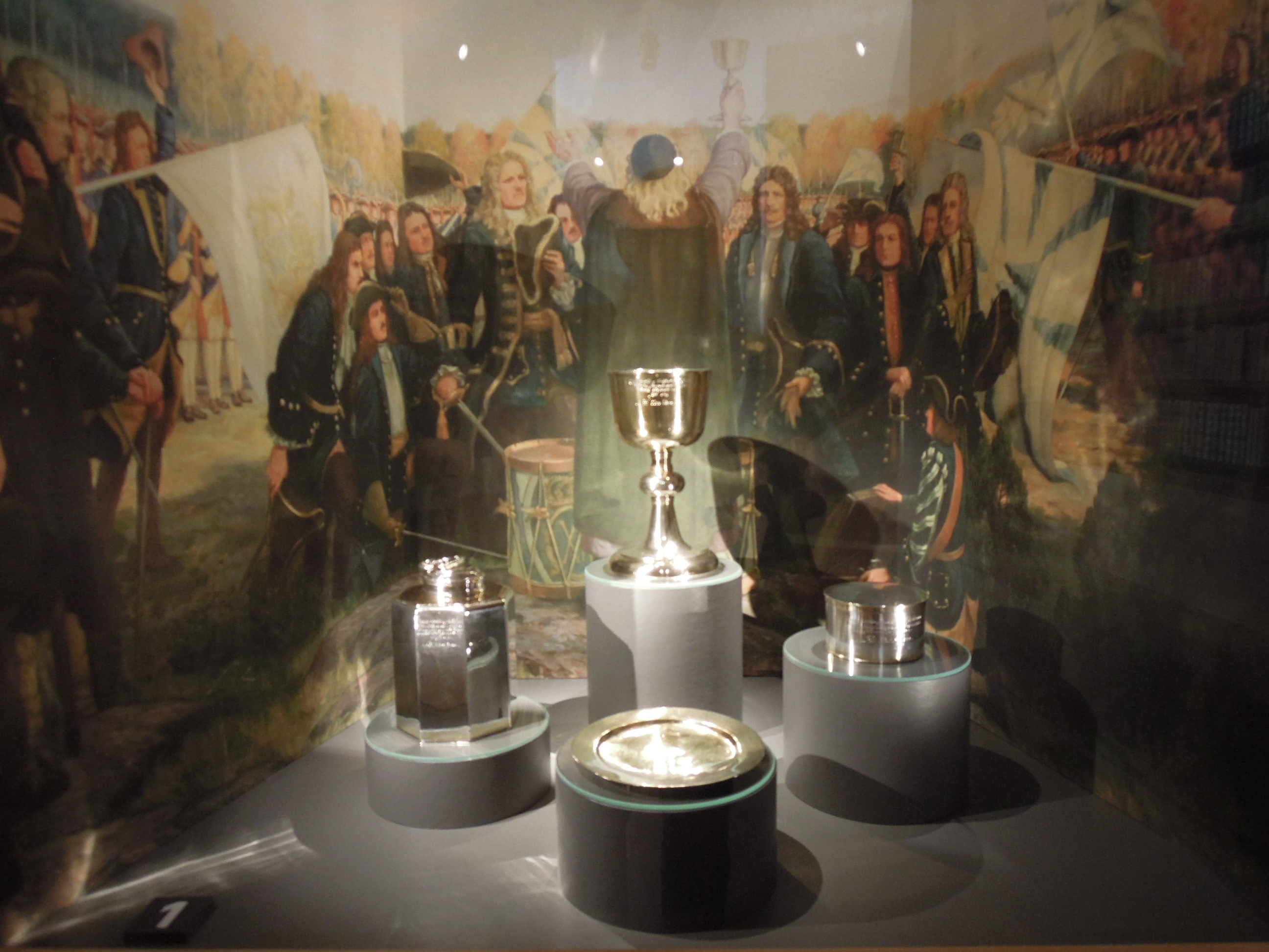 Chalice returned to Sweden from the battle of Poltava, displayed in Västmanlands Läns Museum, Västerås, Sweden 2016